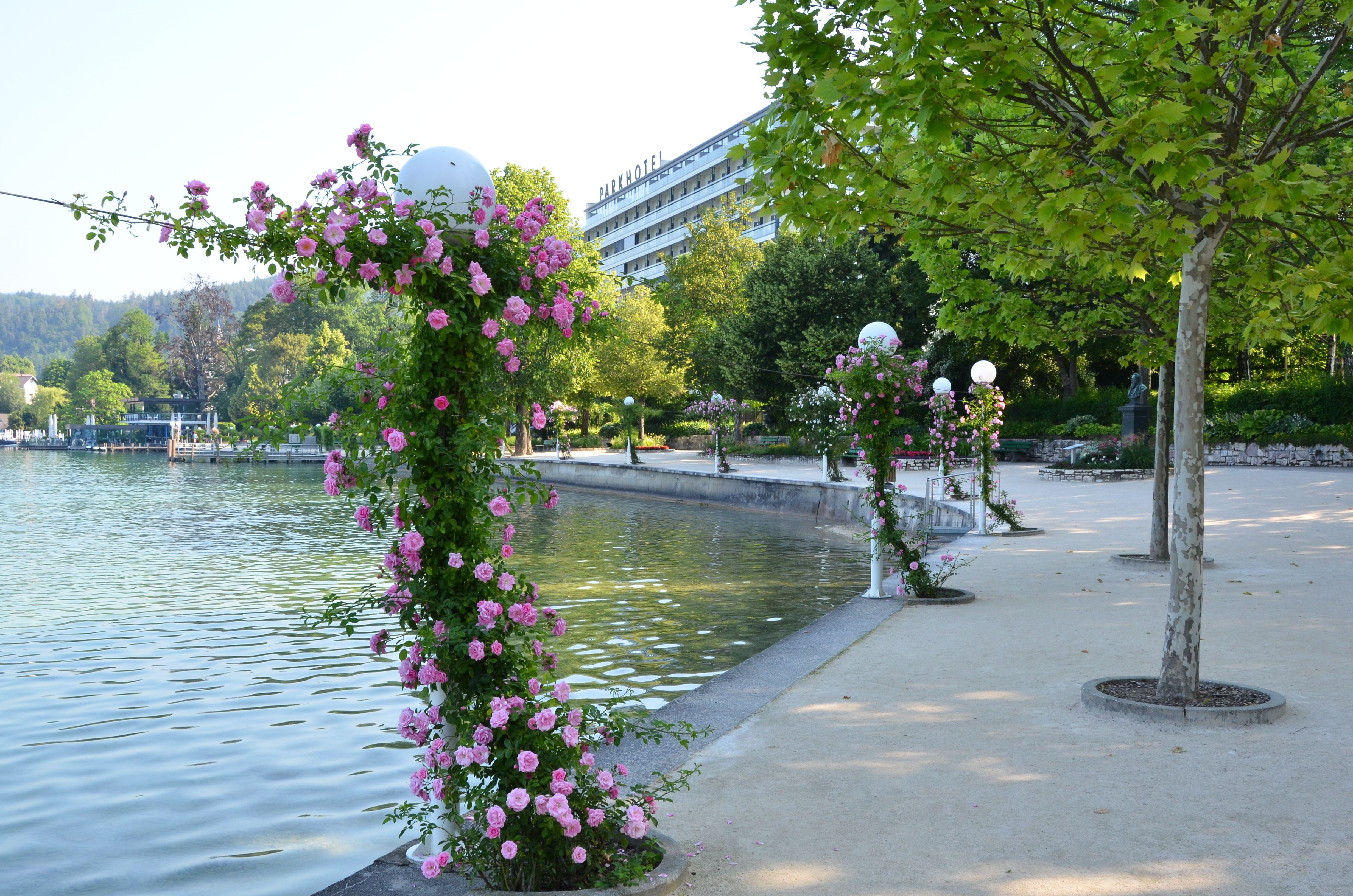 Rambler roses with lantern and the Parkhotel on the Johannes-Brahms-Promenade, municipality Poertschach on the Lake Woerth, district Klagenfurt Land, Carinthia, Austria, EU